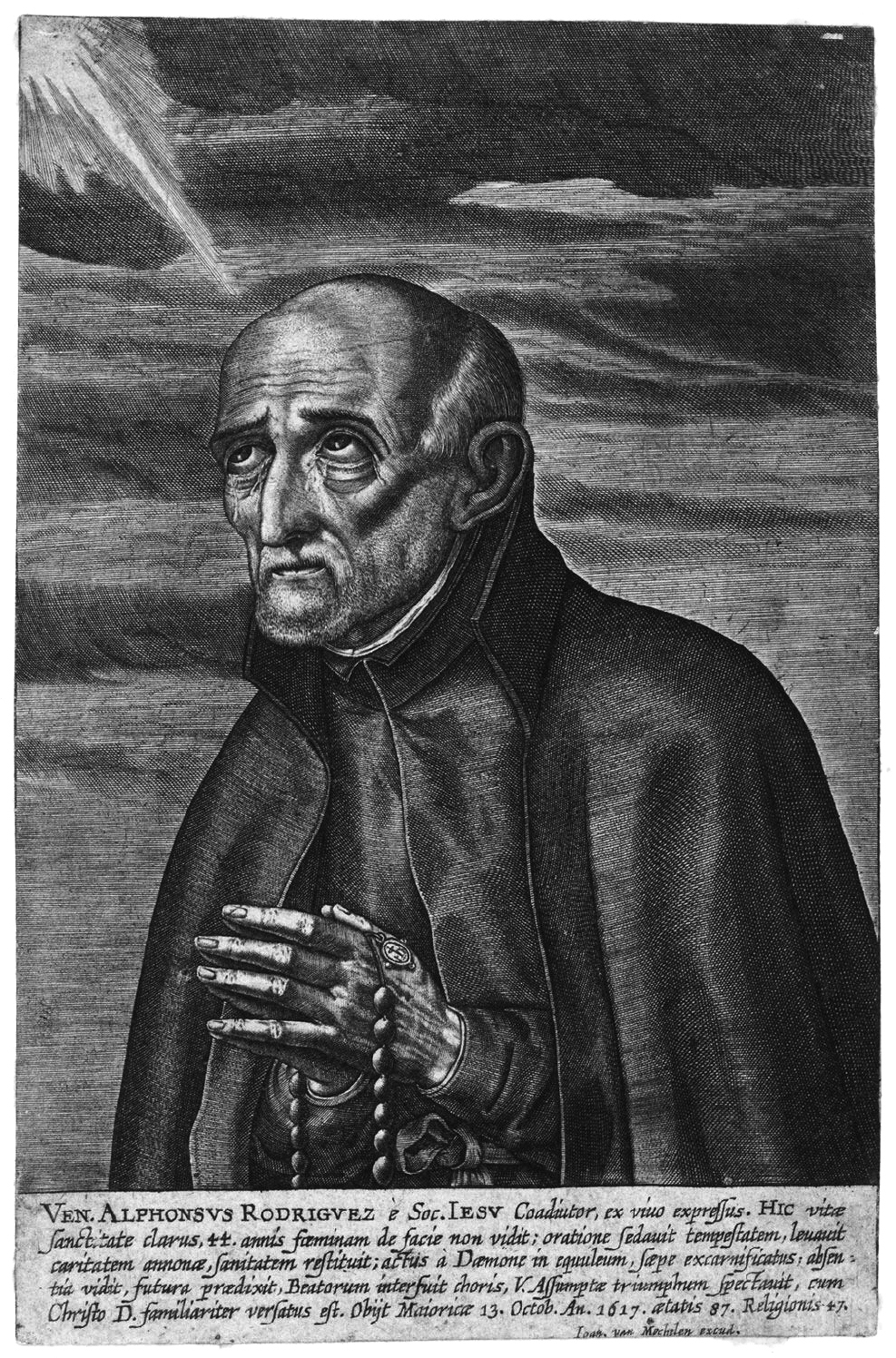 Alphonse Rodriguez engraving 15 x 9.8 cm